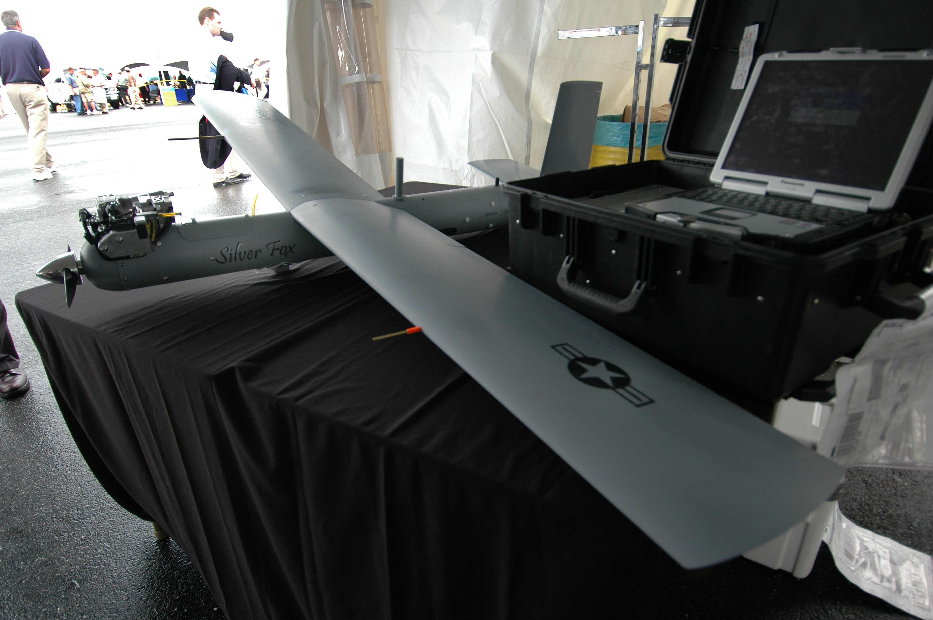 St. Inigoes, Md. – A "Silver Fox" Unmanned Aerial Vehicle and its operator’s station on display at the 2005 Naval UAV Air Demo held at the Webster Field Annex of Naval Air Station Patuxent River. The Silver Fox UAV is designed to provide low cost aerial surveillance imaging and carry sensor payload packages weighing up to four pounds. Video images are transmitted from Silver Fox to a ground station for quick reference. One ground station can simultaneously operation ten units. U.S. Marine Corps units are currently operating the Silver Fox UAVs in Iraq for reconnaissance missions. The daylong UAV demonstration highlights unmanned technology and capabilities from the military and industry and offers a unique opportunity to display and demonstrate full-scale systems and hardware.